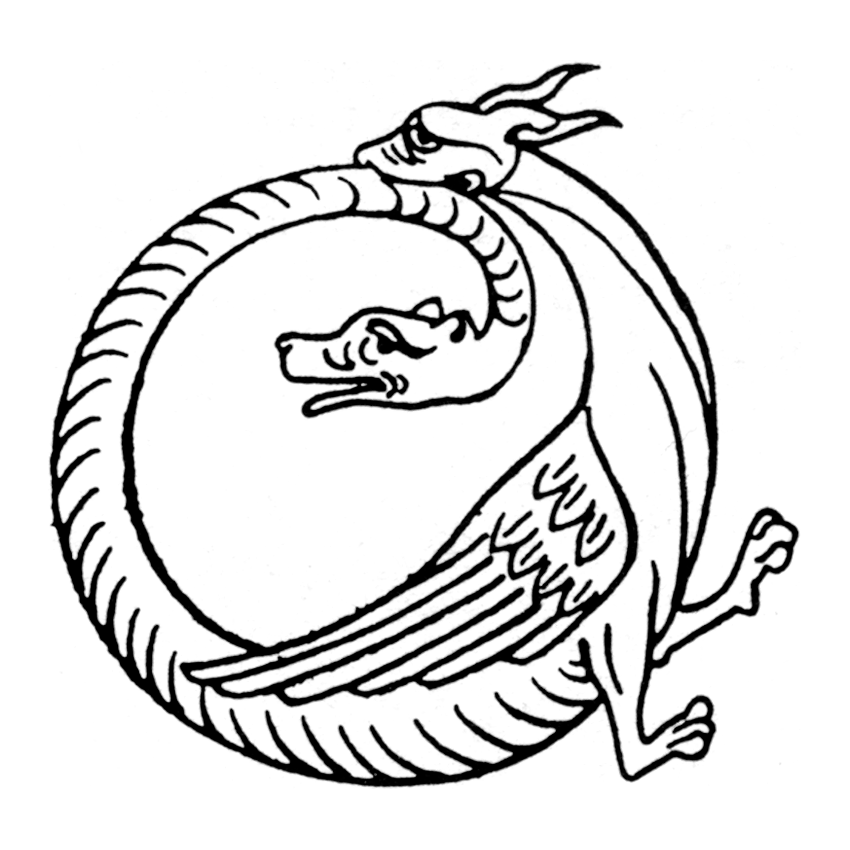 Uroboros as a two-headed winged dragon. Really, is a Amphisbaena.